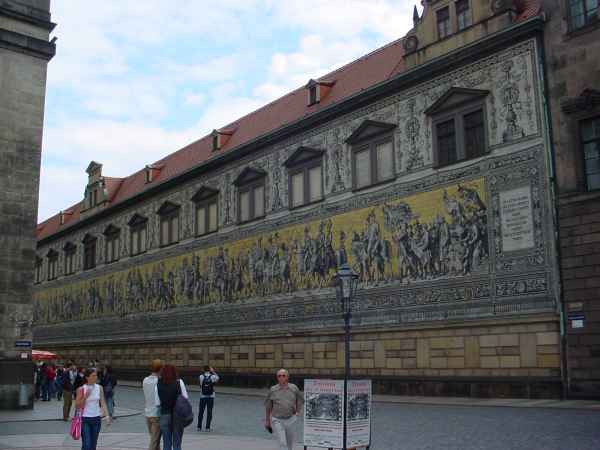 Dresden, Fürstenzug.